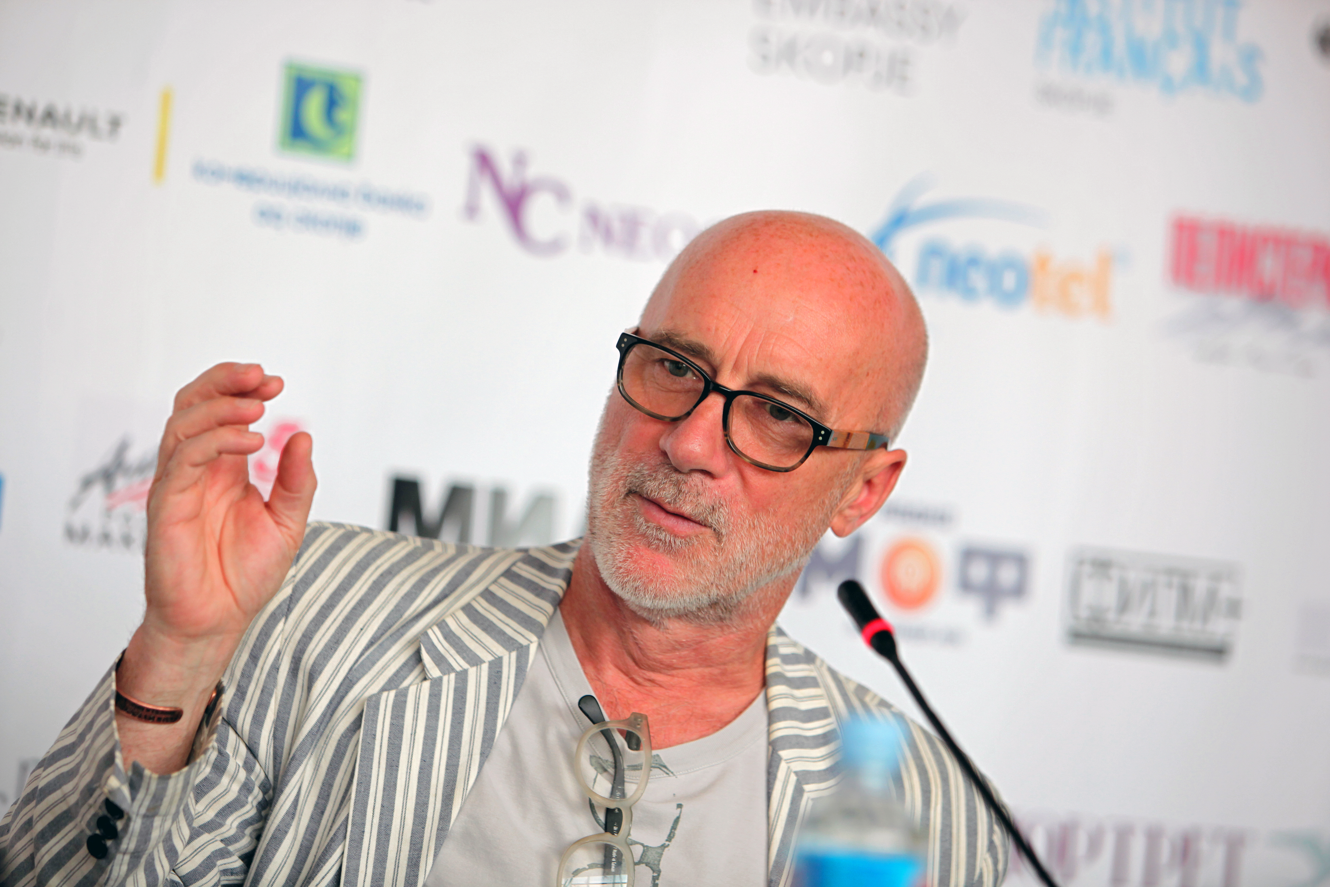 British cinematographer John Mathieson at the Manaki Brothers Festival in Bitola, North Macedonia, on 18 September 2019.